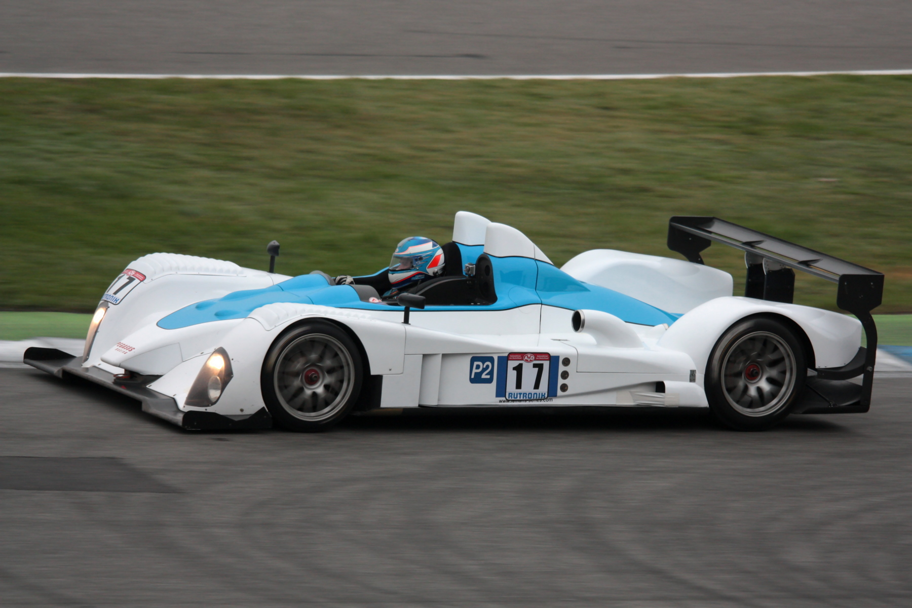 Julien Schell driving a Courage LC75 at AvD German Sports Car Cup in Hockenheim 2013